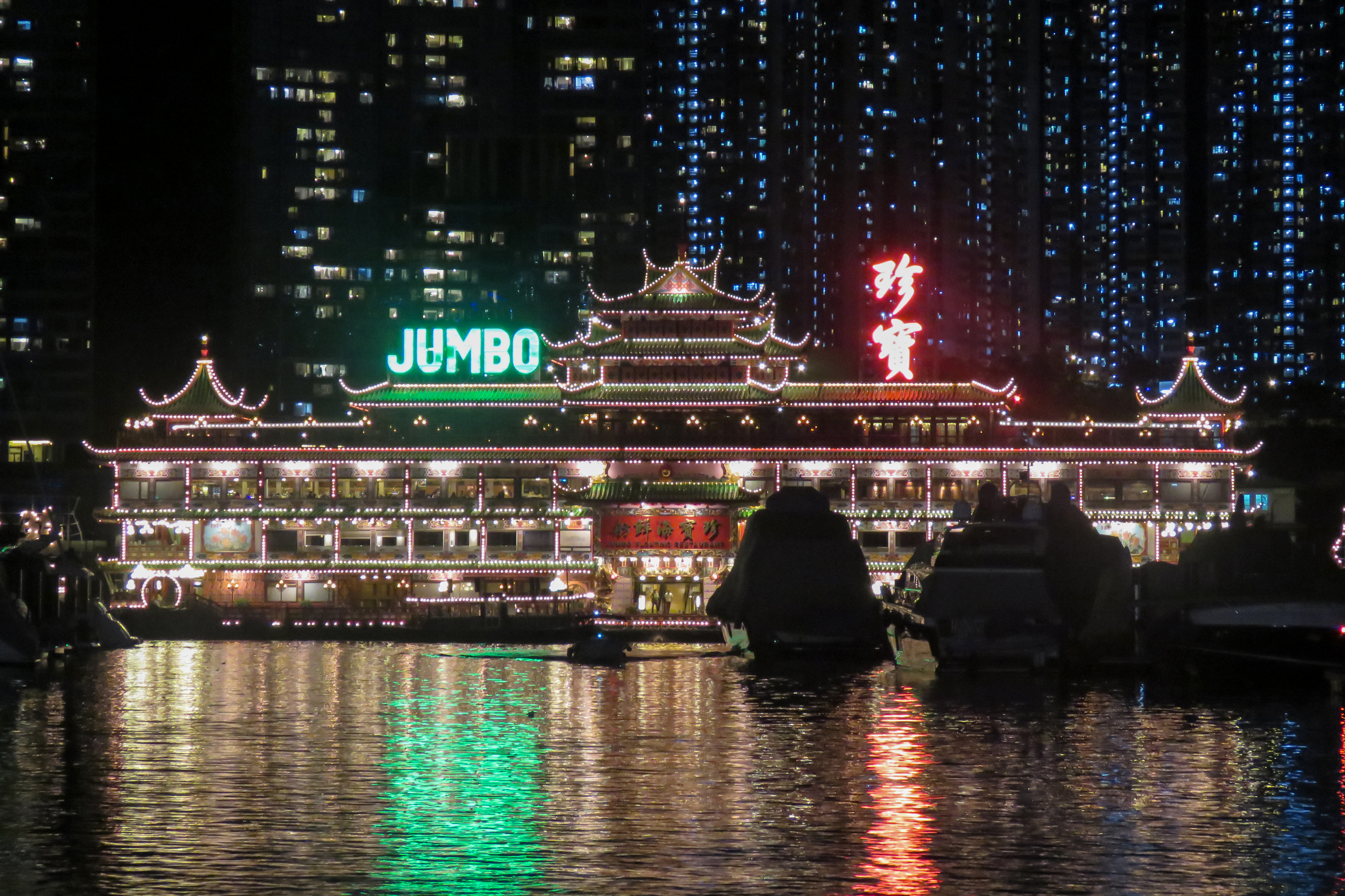 The facade actually faces Sham Wan, instead of Ap Lei Chau.